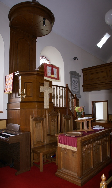 Tingwall Kirk, Tingwall, Mainland, Shetland, Scotland - interior